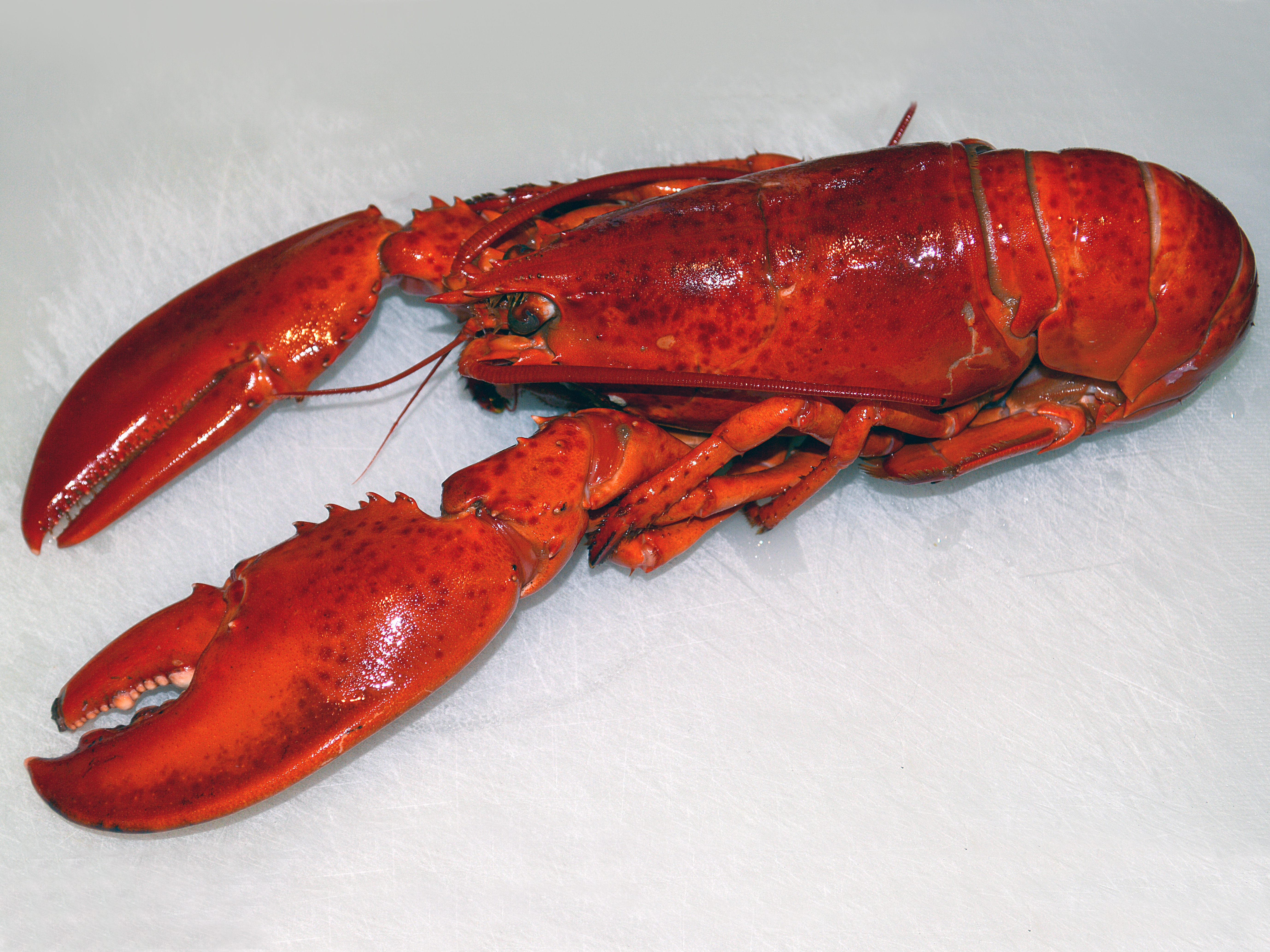 American lobster, Homarus americanus, cooked